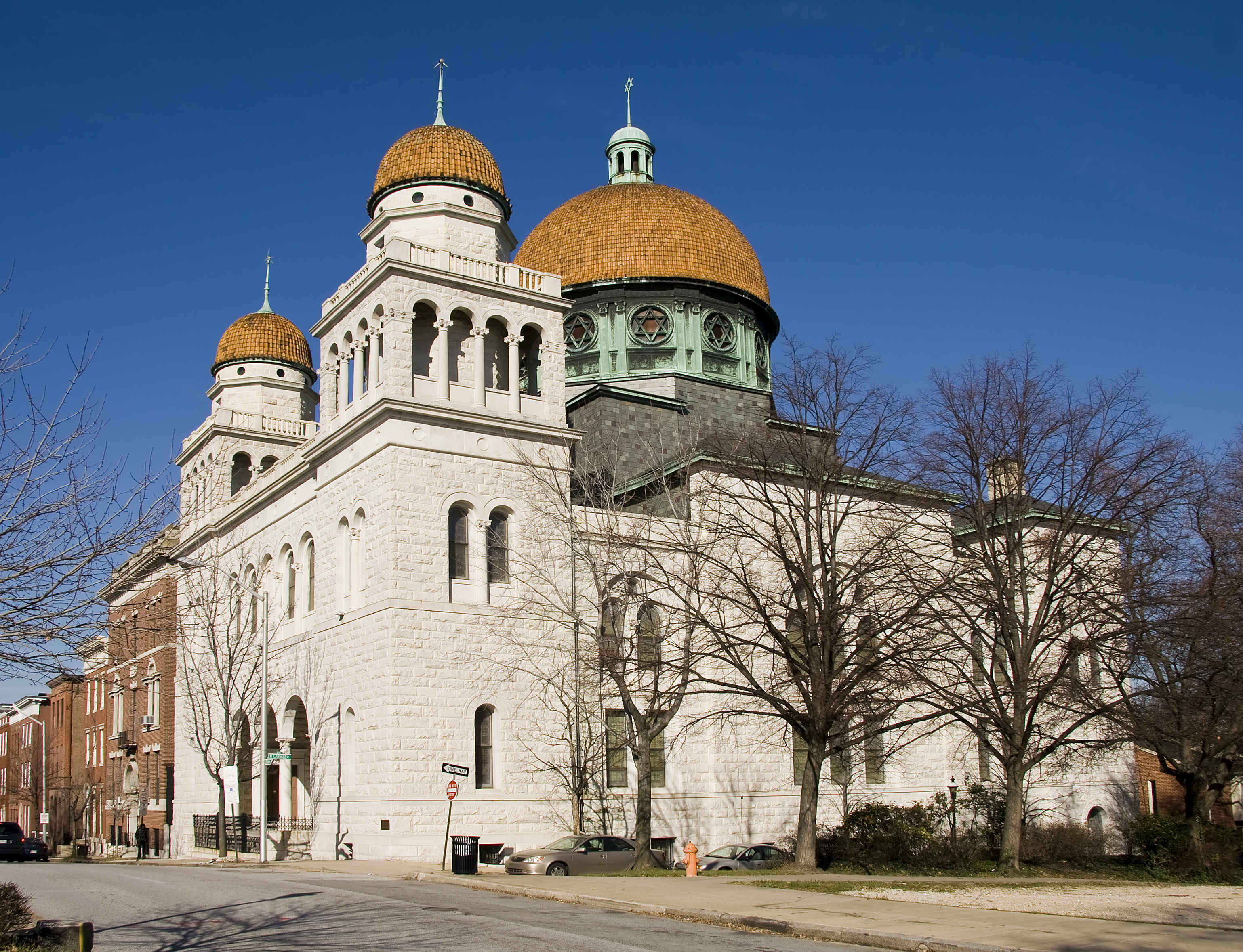 Eutaw Place Temple, Baltimore, Maryland. originally Temple Oheb Shalom, built 1892, sold to the Prince Hall Masons in 1960.